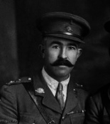 C. 1922. Portrait of Frederick Royden Chalmers, Australian Army officer, former commander of the 27th Battalion December 1917 to 1919, and administrator of Nauru (1938-1943). Chalmers was executed by the Japanese in 1943.